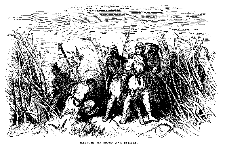 engraving of Daniel Boone's 1769 capture by Shawnees, from Life & Times of Col. Daniel Boone , by Cecil B. Hartley